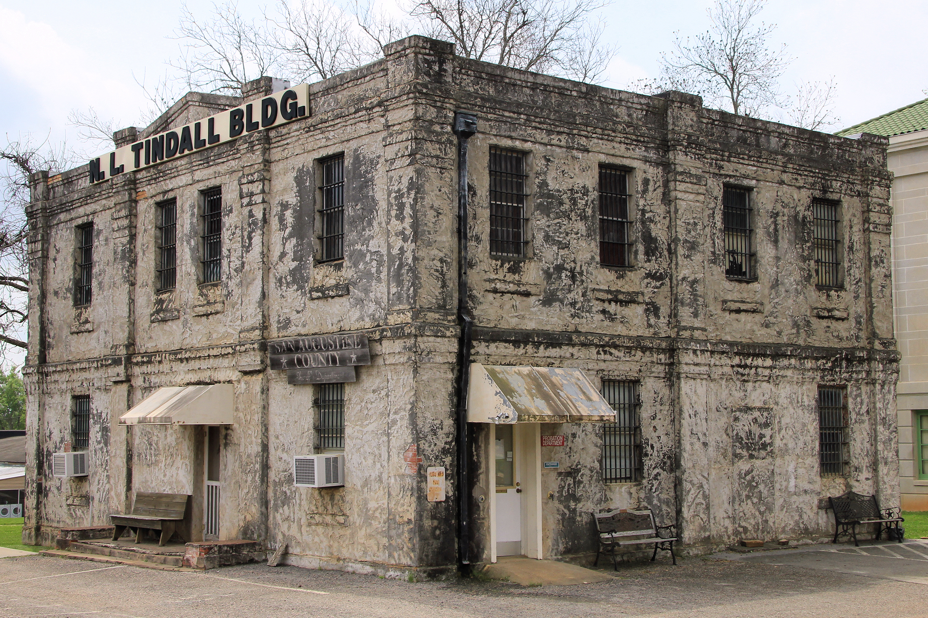 The old San Augustine County Jail in San Augustine, Texas, United States was built in 1919. The jail was listed on the National Register of Historic Places on August 20, 2004 and designated a Recorded Texas Historic Landmark in 2017.